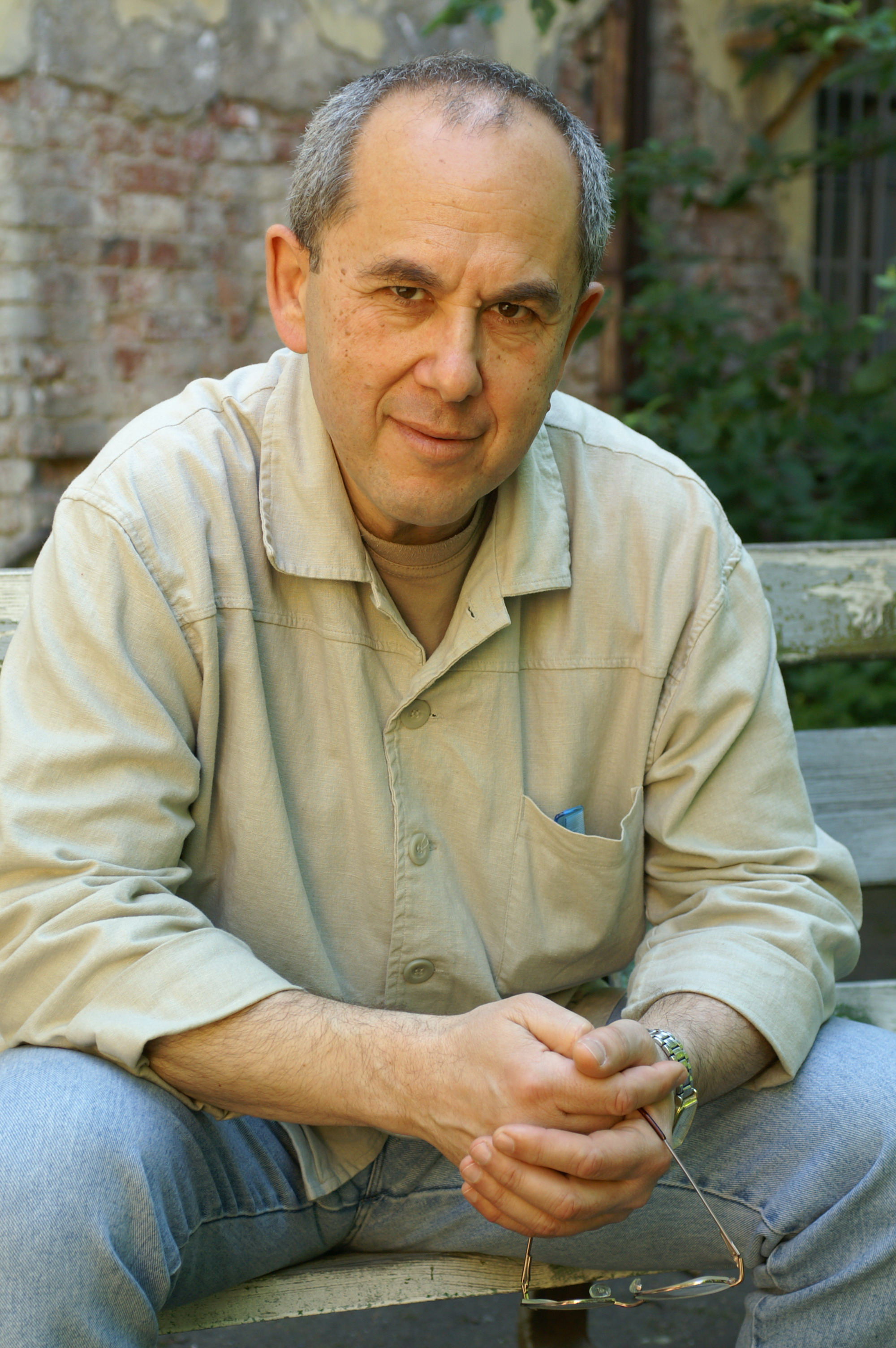 On a rehearsal